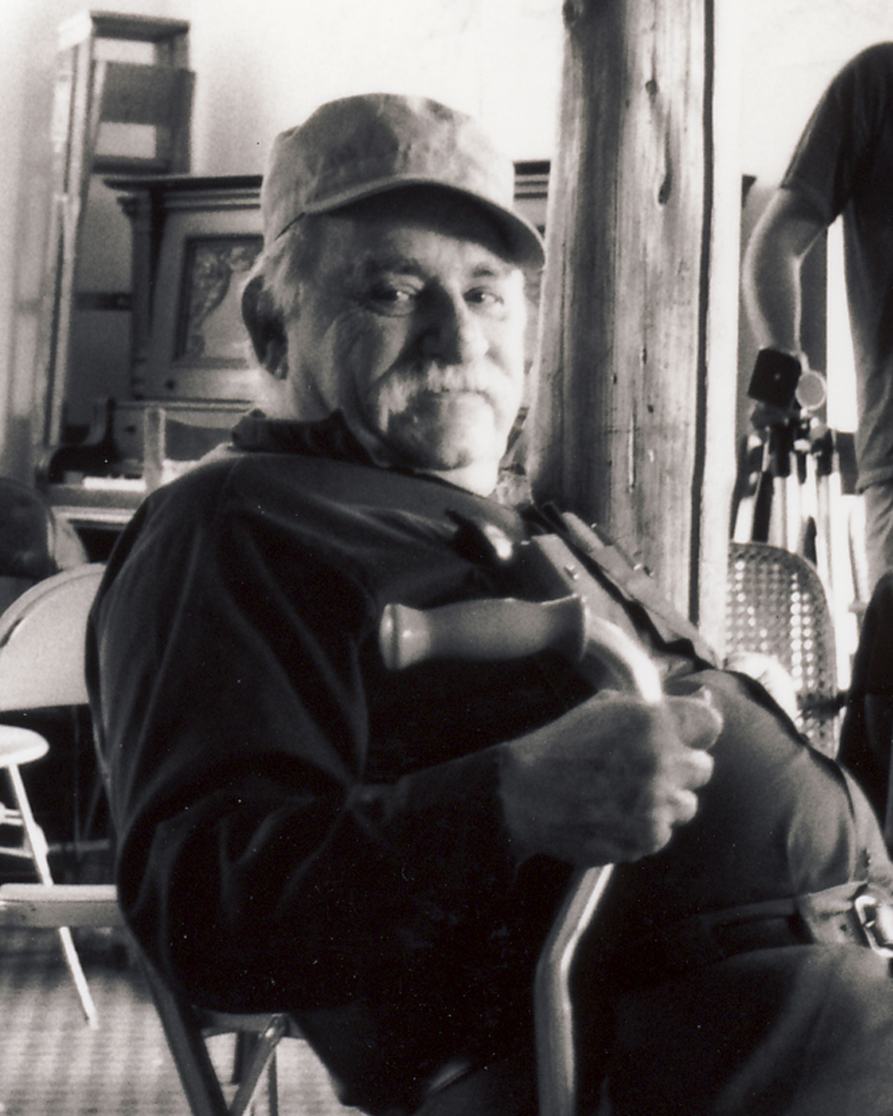 portrait of Murray Bookchin